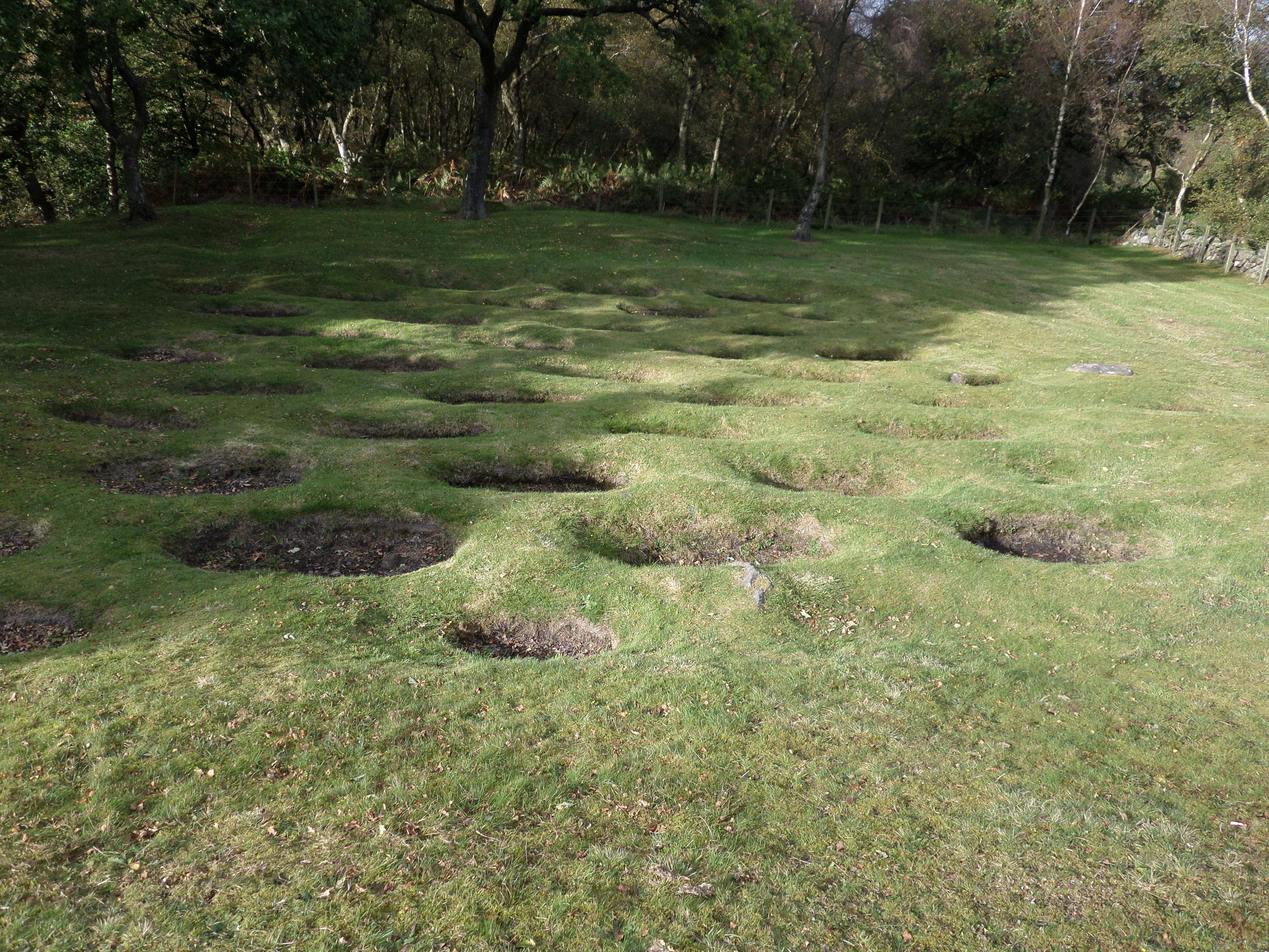 Lilia pits at Roughcastle Roman Fort, Falkirk, Scotland.